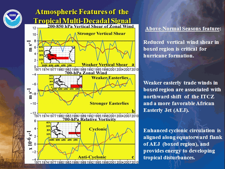 Atmospheric Features of the tropical multi decadal signal, including reduced vertical wind shear, weaker easterly trade winds, and an extensive area of cyclonic shear at 700-hPa along the equatorward flank of the African Easterly Jet.